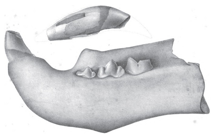 An illustration of the holotype lower jaw of Panthera "Felis" atrox described by Leidy. From Leidy, 1852.